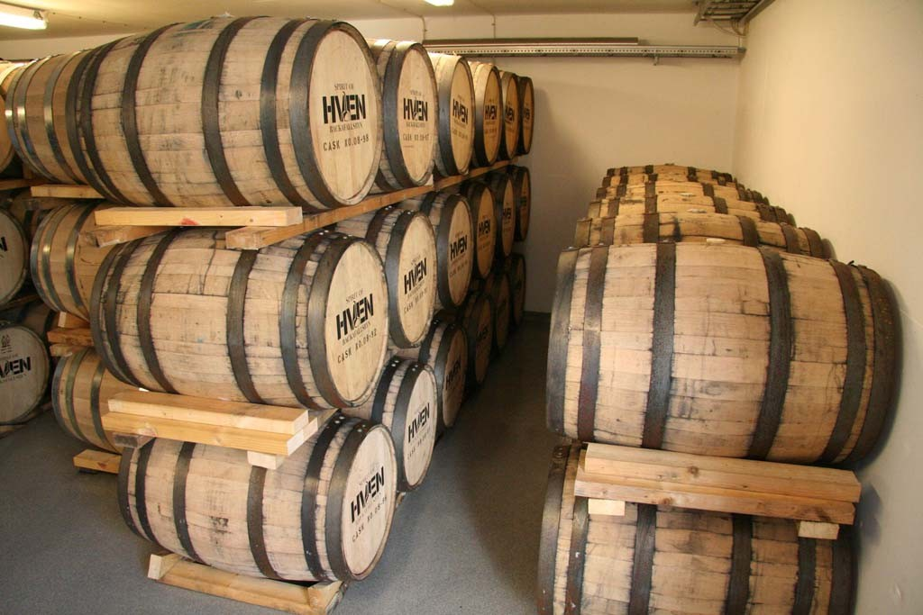 Destillery of Spirit of Hven